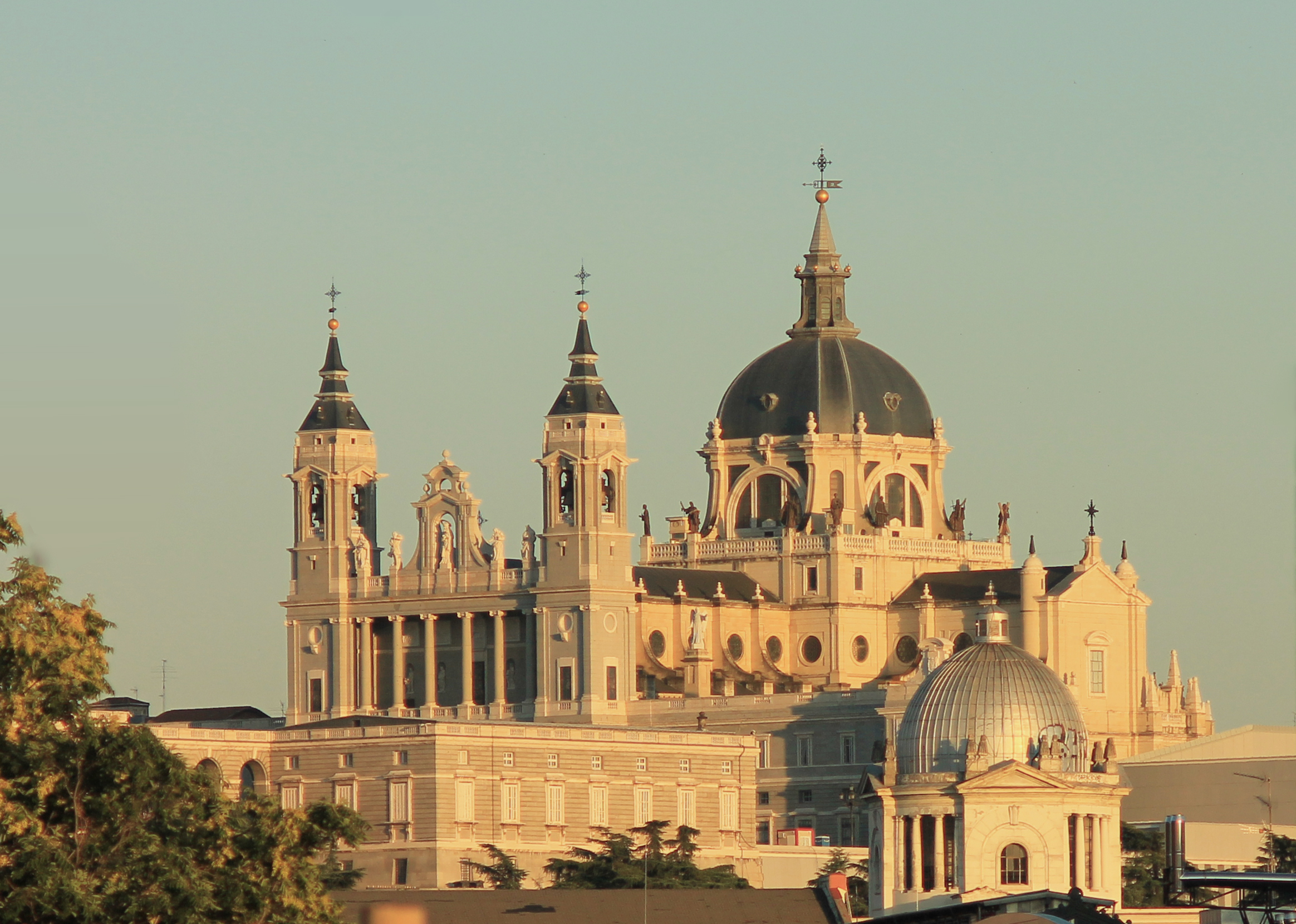 View of Almudena Cathedral in Madrid (Spain).